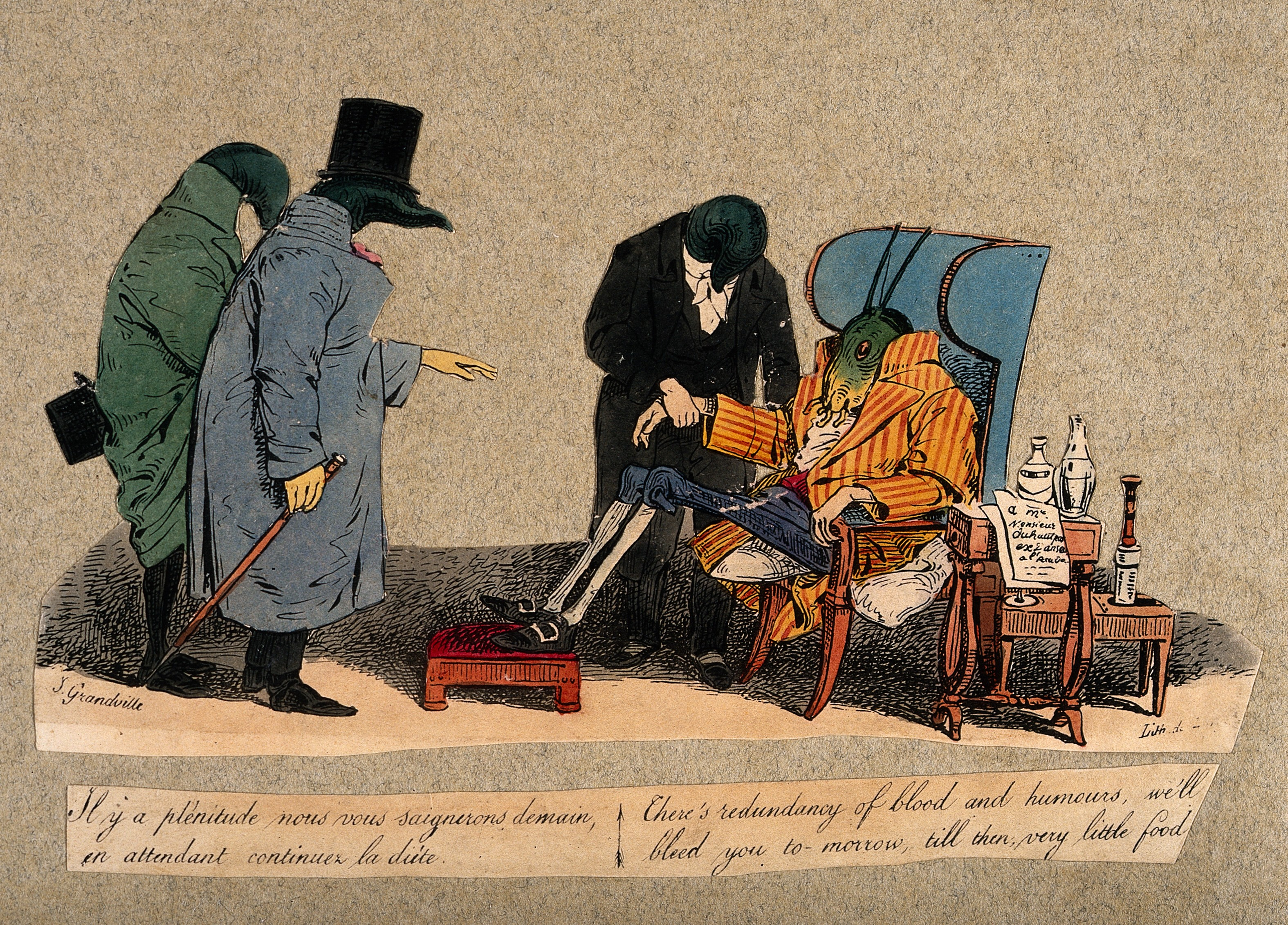 Topic-LCSH: Grasshoppers Human behavior -- Animal models. Sick. Physician and patient. Leeches Phlebotomy. (Re)published J.J. Grandville (died 1847), Les métamorphoses du jour, Paris: Garnier frères, 1869, ch. 65, pp. 434-442. Genre/Technique: Caricatures. Lithographs. Subject name: Broussais, F. J. V. (François Joseph Victor), 1772-1838.